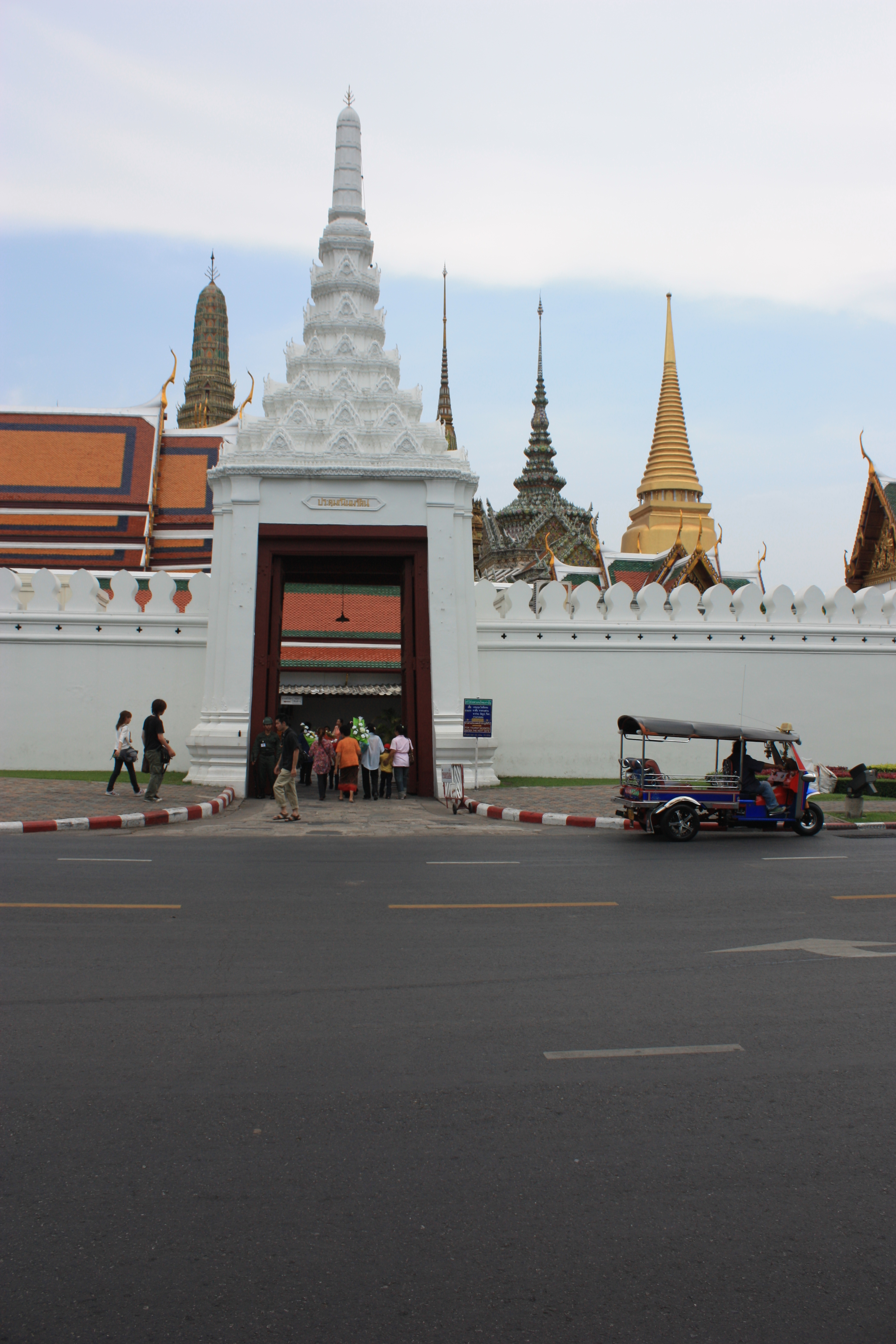 Wat Phra Kaew Bangkok